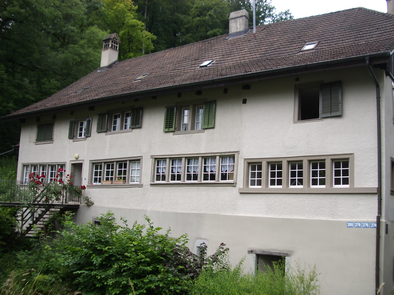 Friesenberg ZH, Switzerland: ehemalige Mühle der Burg Friesenberg Von der Burgmühle zur ersten Wirtschaft im Friesenberg